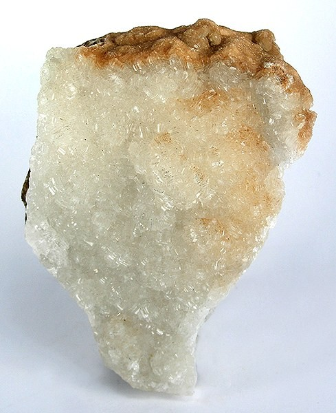 Hemimorphite Locality: Sterling Hill, Ogdensburg, Franklin Mining District, Sussex County, New Jersey, USA (Locality at ) Size: 9.2 x 7.3 x 3.3 cm. An extremely old, 19th Century specimen, this matrix specimen features a crust of lustrous, interlocked crystals of white to tan "calamine". Calamine is the pre-1900 name for the mineral hemimorphite. This old specimen is from the William Jefferis collection at Carnegie. Jefferis was one of America's greatest mineral collectors of the 19th. Century and his collection formed a huge core to this museum. Overall a fine specimen anyways, with sparkling, brilliantly lustrous crystals covering matrix and dating to the mid to late 1800s. Ex. Carnegie Museum Collection.